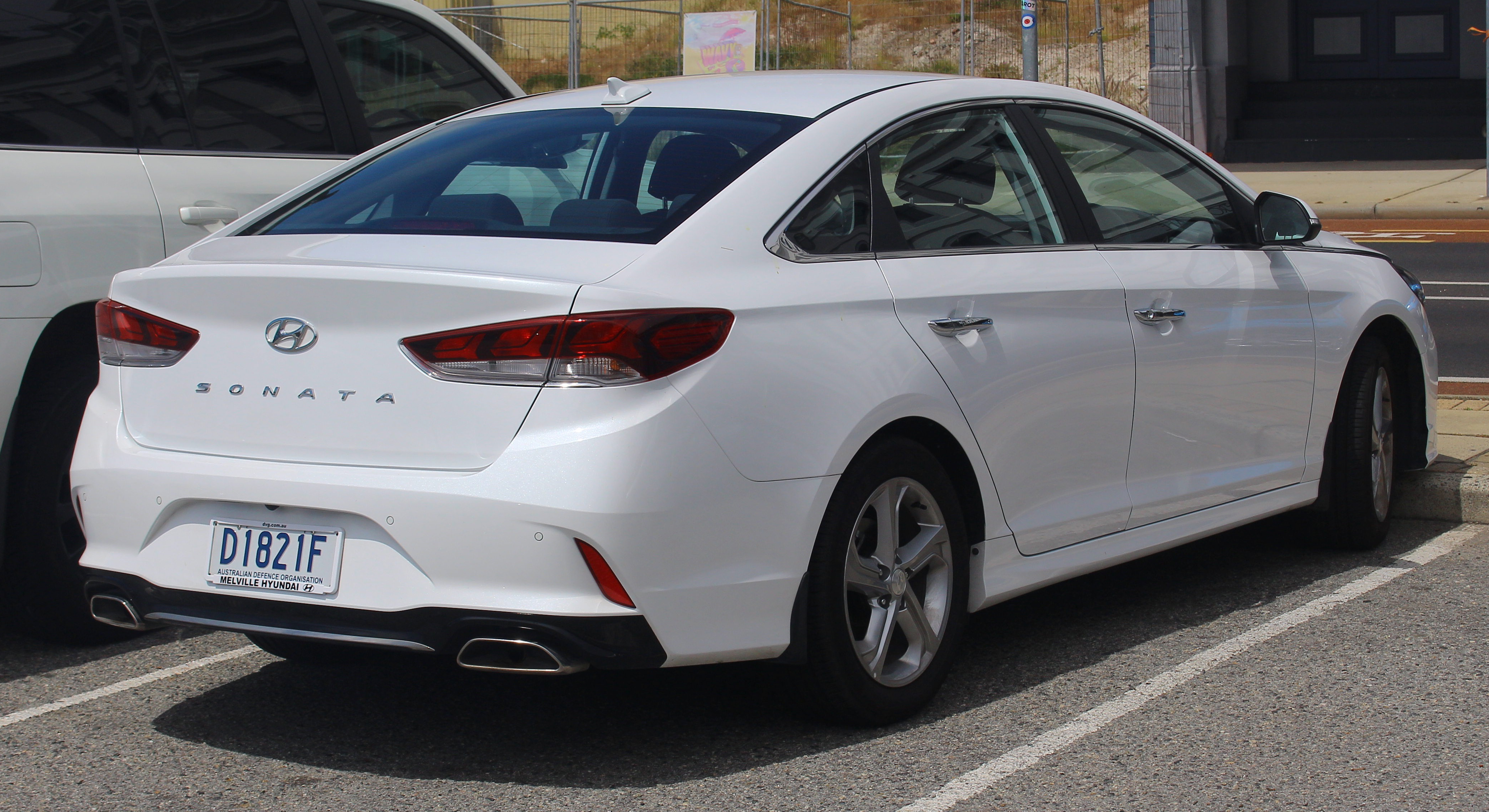 2018 Hyundai Sonata (LF4 MY18) Active 2.4 sedan. Photographed in Fremantle, Western Australia, Australia.